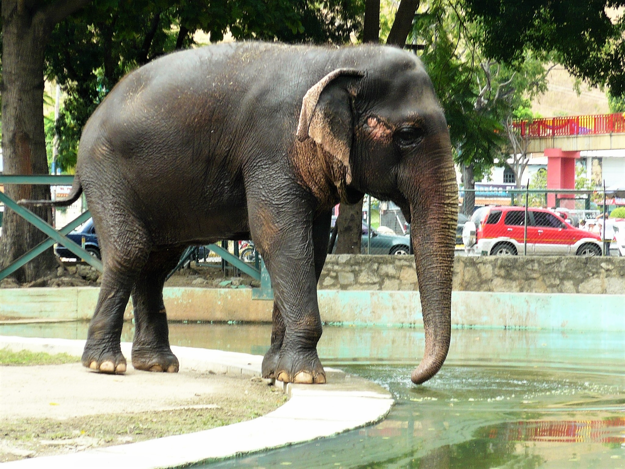 "Lucky", the female elephant that arrived at the zoo of Maracay in the year of 1953 to the 3 years of age, was the most emblematic species of the Zoo and since then was Icon of both the Zoo and the city.